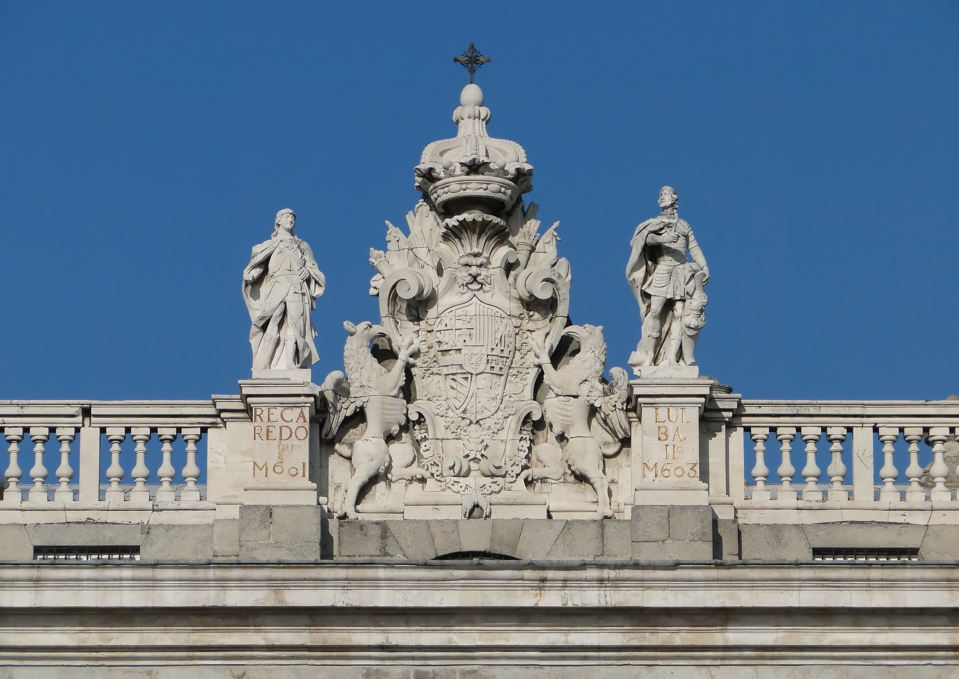 Sculpture on top of East façade of the Royal Palace of Madrid, Spain. Coat of arms of Phillip V, with the collars of the Orders of the Golden Fleece and of the Holy Spirit.